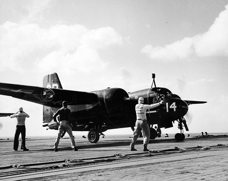 A U.S. Navy Grumman S2F-1 Tracker anti-submarine aircraft gets a "go" from the flight deck officer on the aircraft carrier USS Leyte (CVS-32) during the LANTPHIBEX exercise in 1955. The plane my have been assigned to Anti-Submarine Squadron 32 (VS-32) "Norsemen" (tail code "SR"), which was stationed aboard the Leyte in 1955.